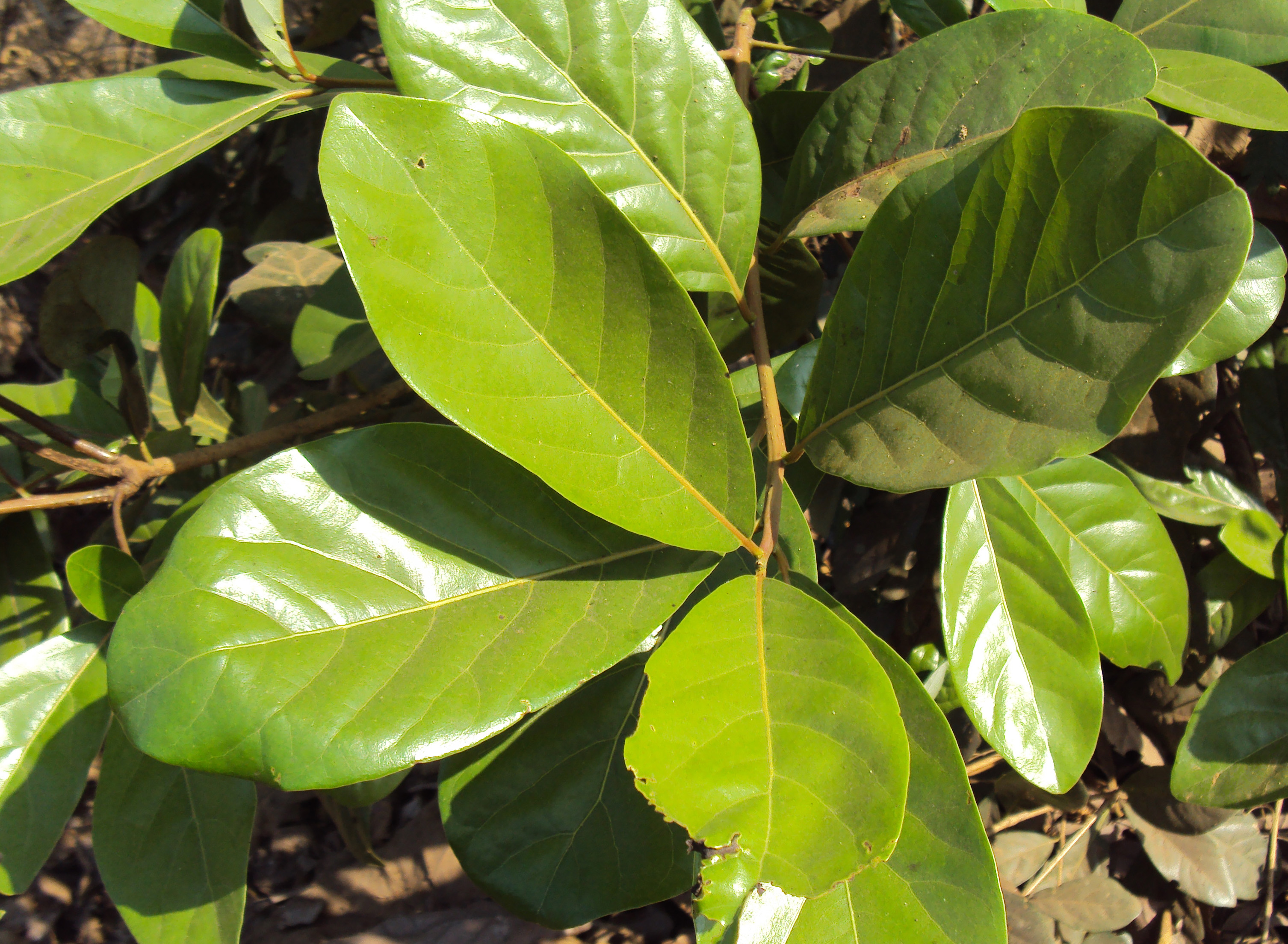 Alseodaphne semecarpifolia